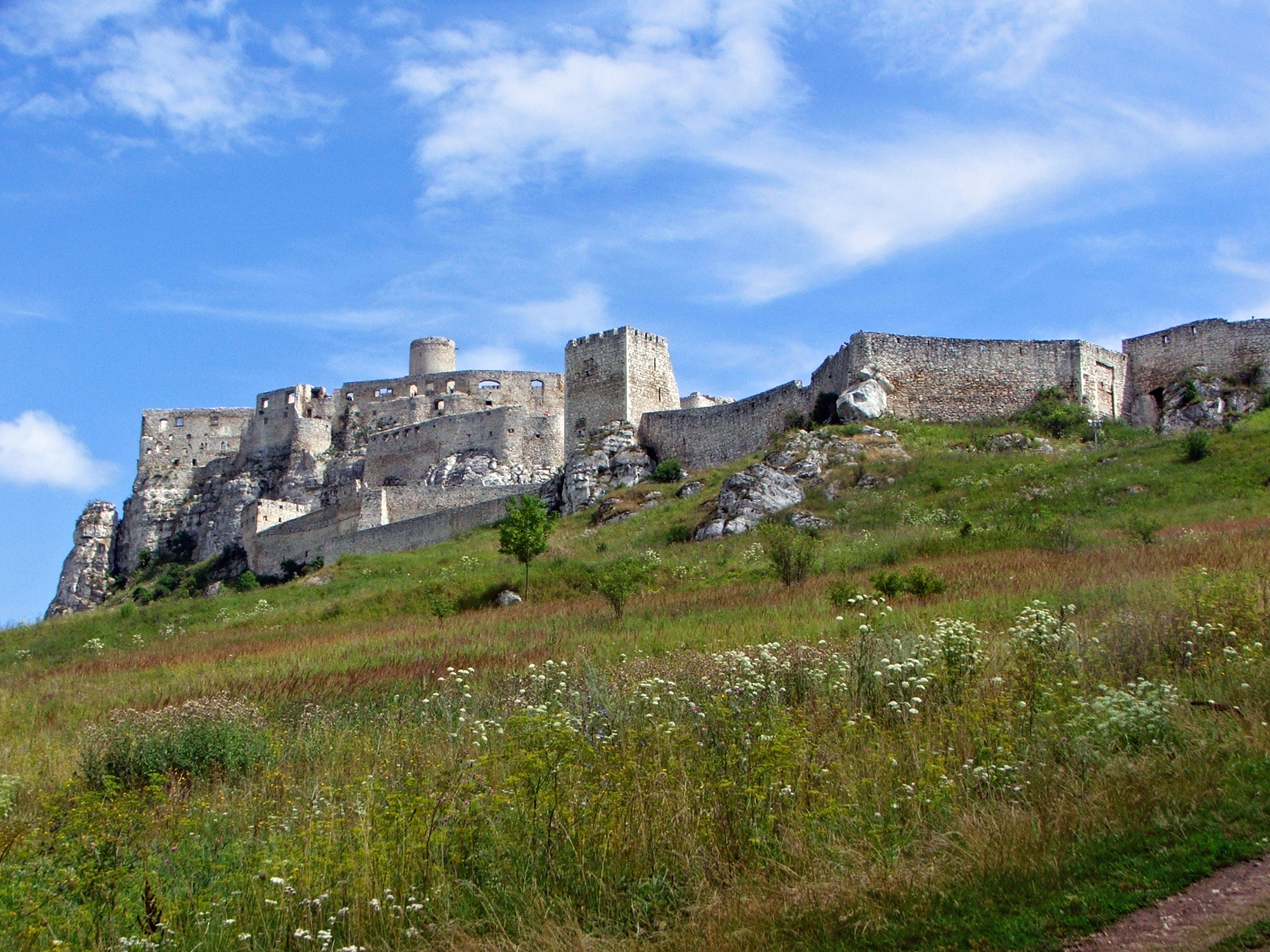 Spis Castle